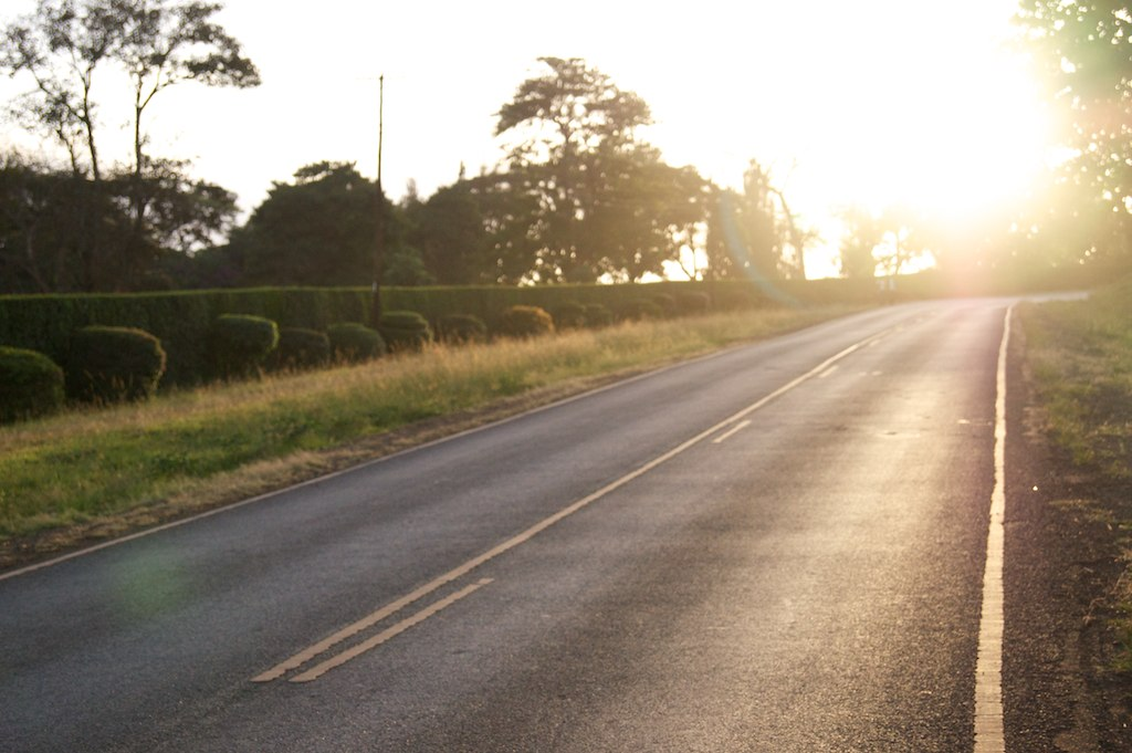 Road in Nyeri County.